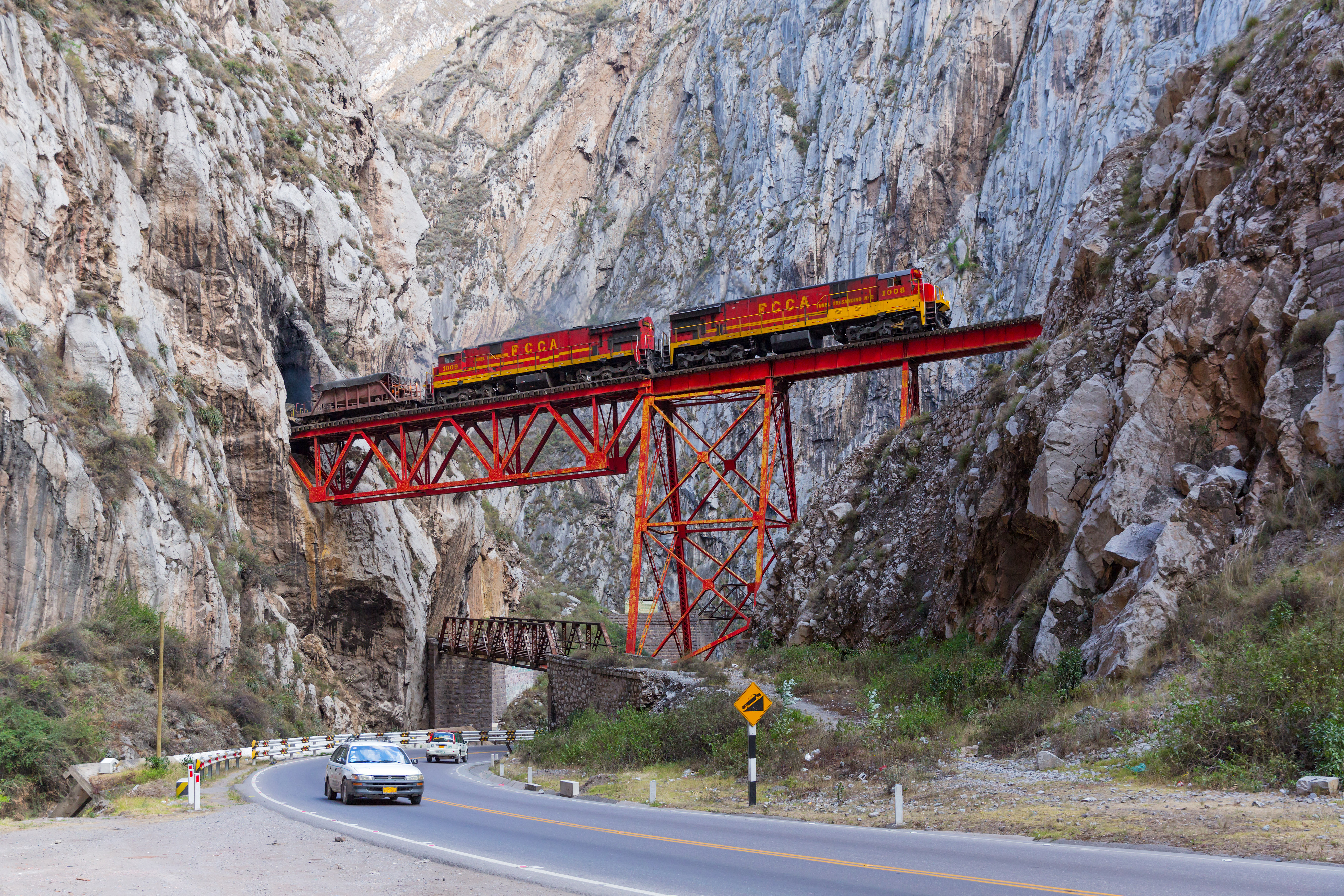 Ferrocarril Central Andino's GE C30-7 1008 and 1009 cross the Infernillo ("little hell") viaduct between San Mateo and Rio Blanco, Peru.